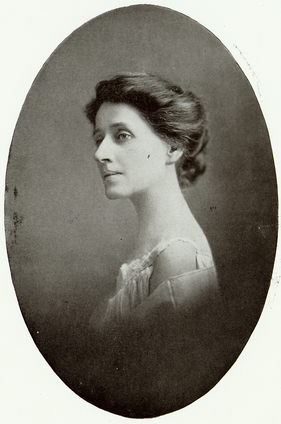 Adelaide Johnson was the sculptor of the Marble portrait monument, Portrait Monument to Lucretia Mott, Elizabeth Cady Stanton, and Susan B. Anthony in the Rotunda of the U.S. Capitol.